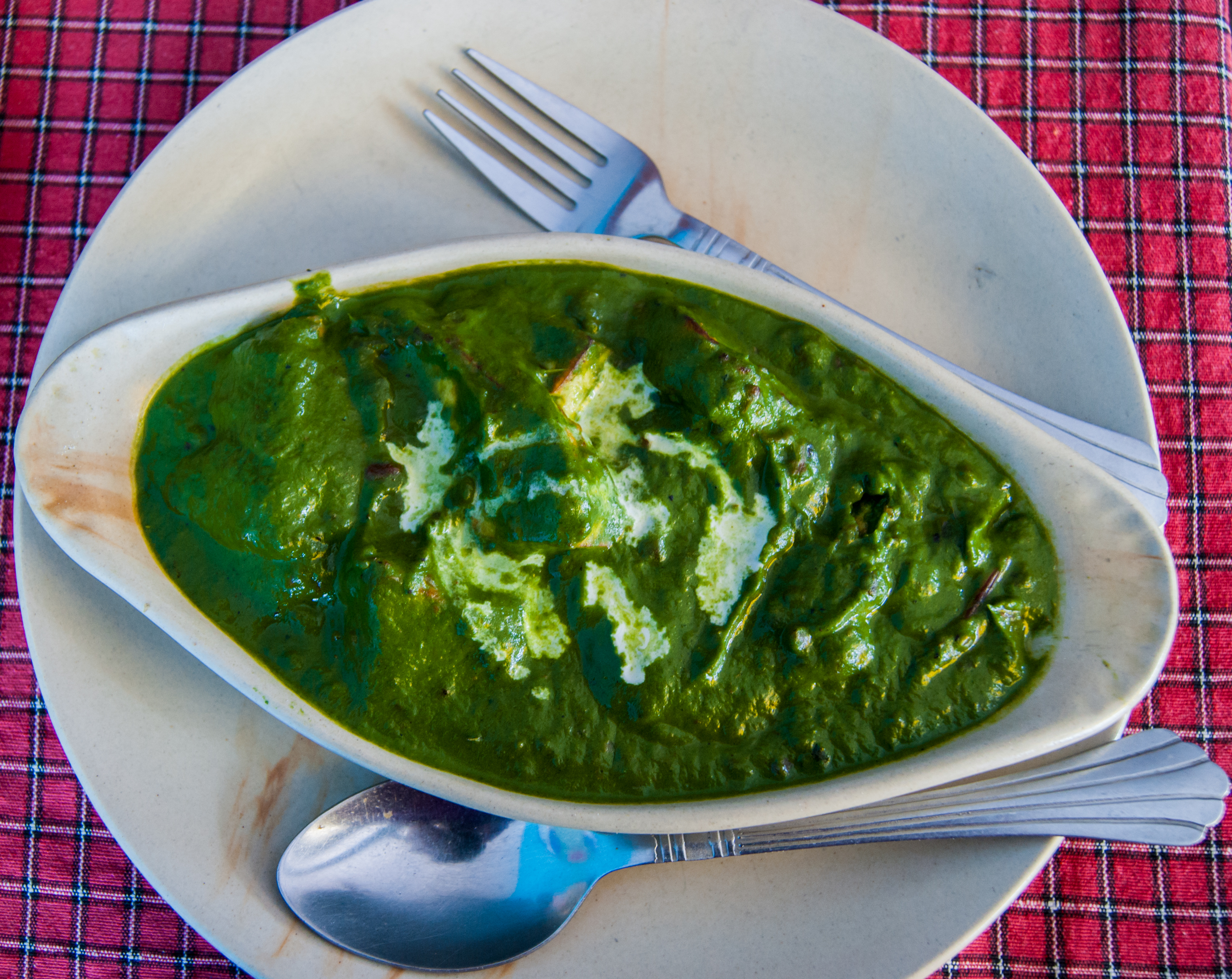 Delicious Indian food Palak Paneer